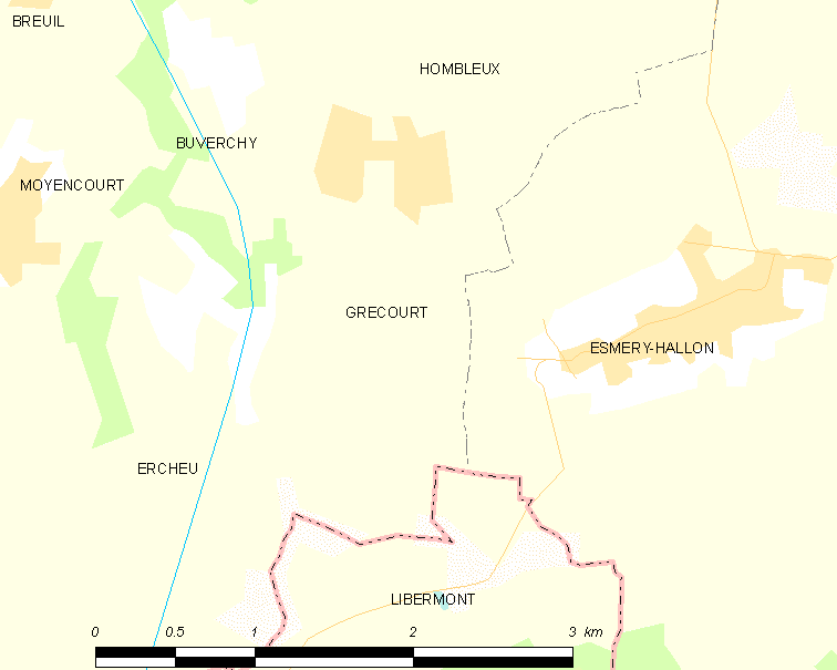 Map of French municipality Grécourt